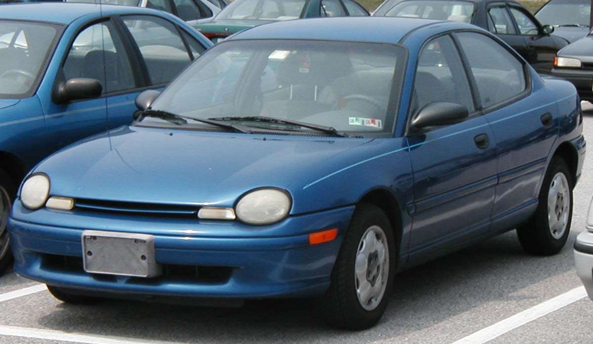 1995-1999 Dodge Neon photographed in USA.